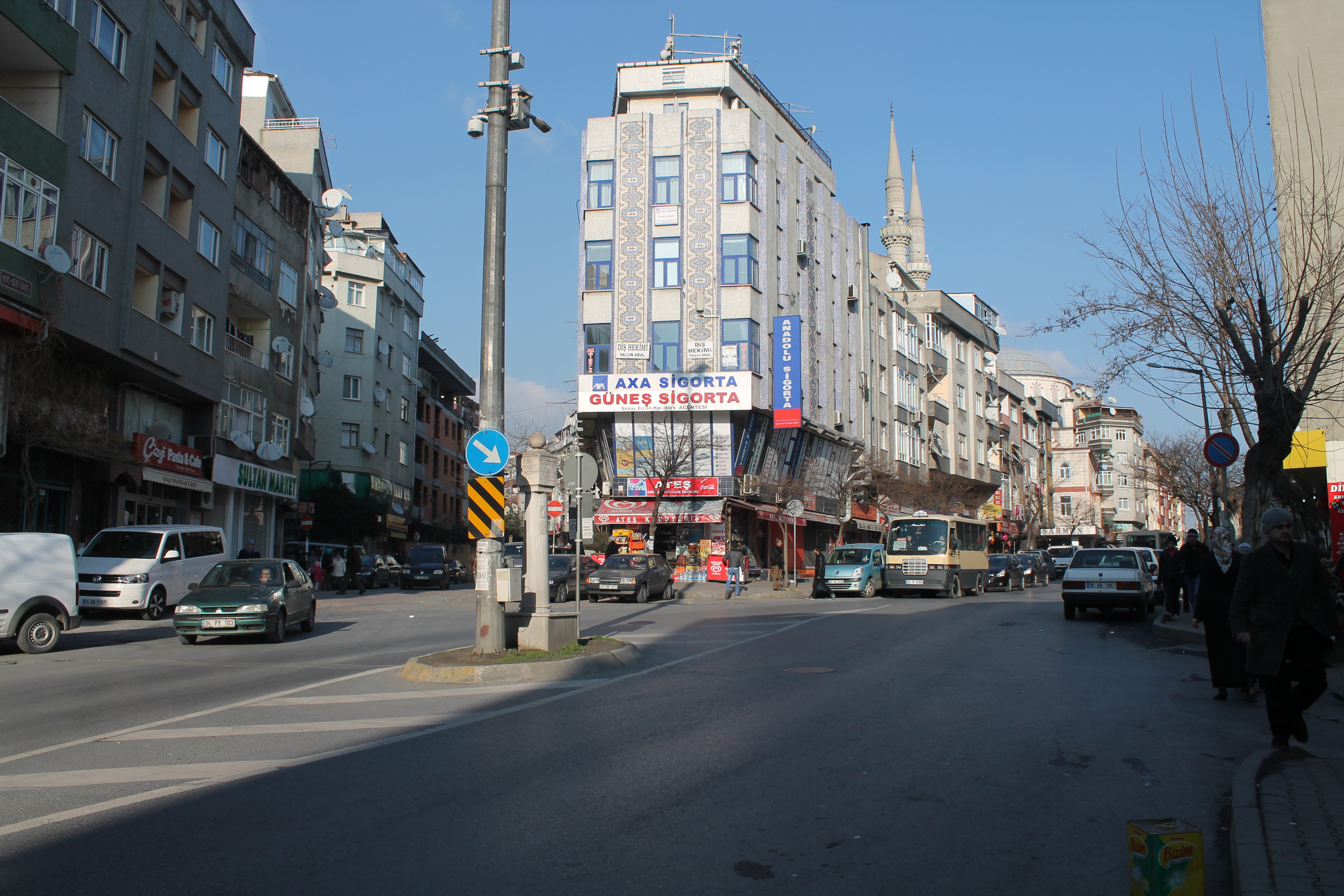 Dikilitaş neighbourhood, Zeytinburnu